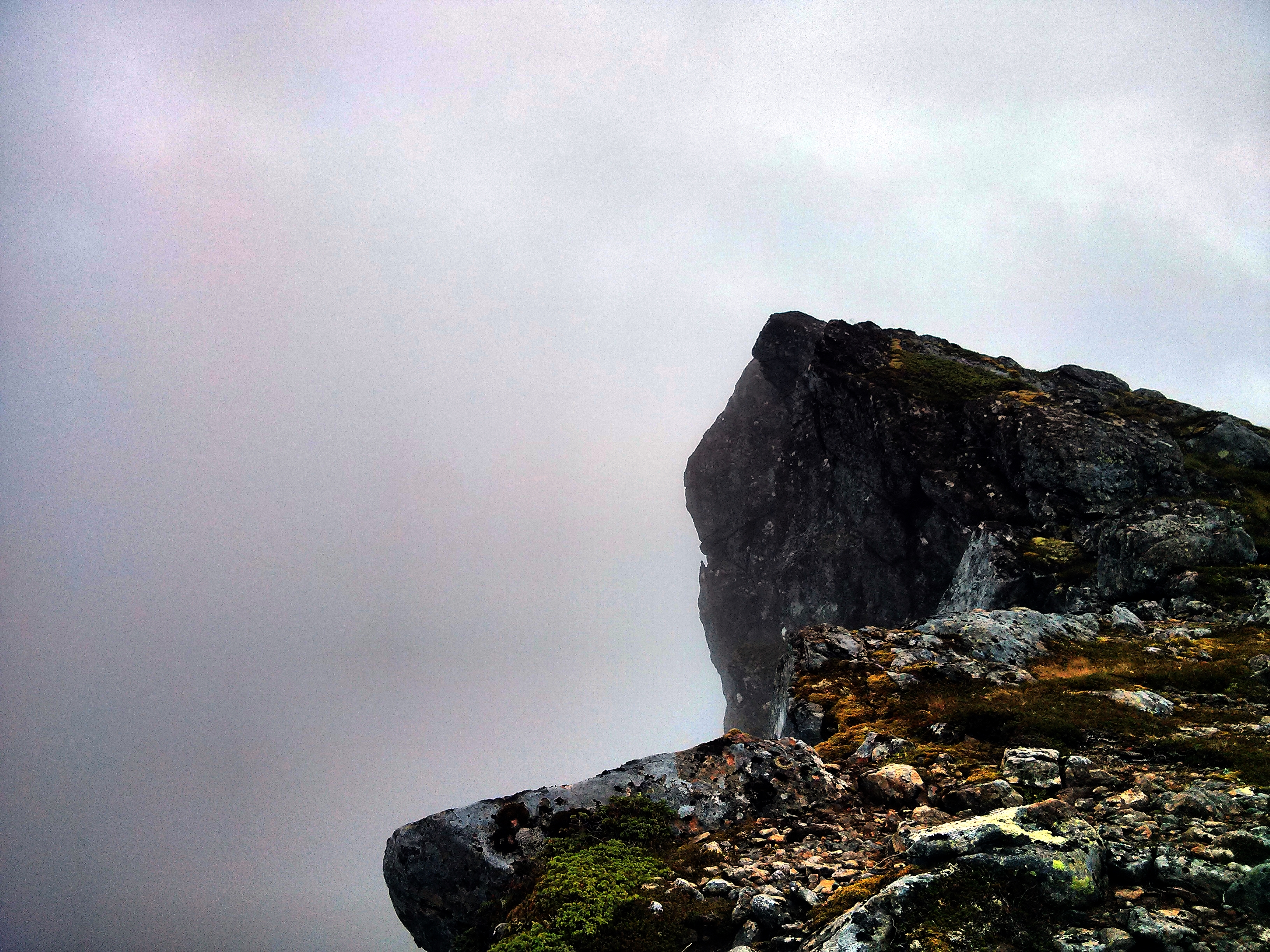 Peak in fog